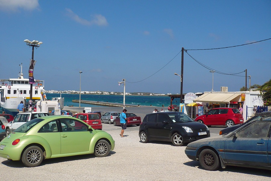 Pounta port